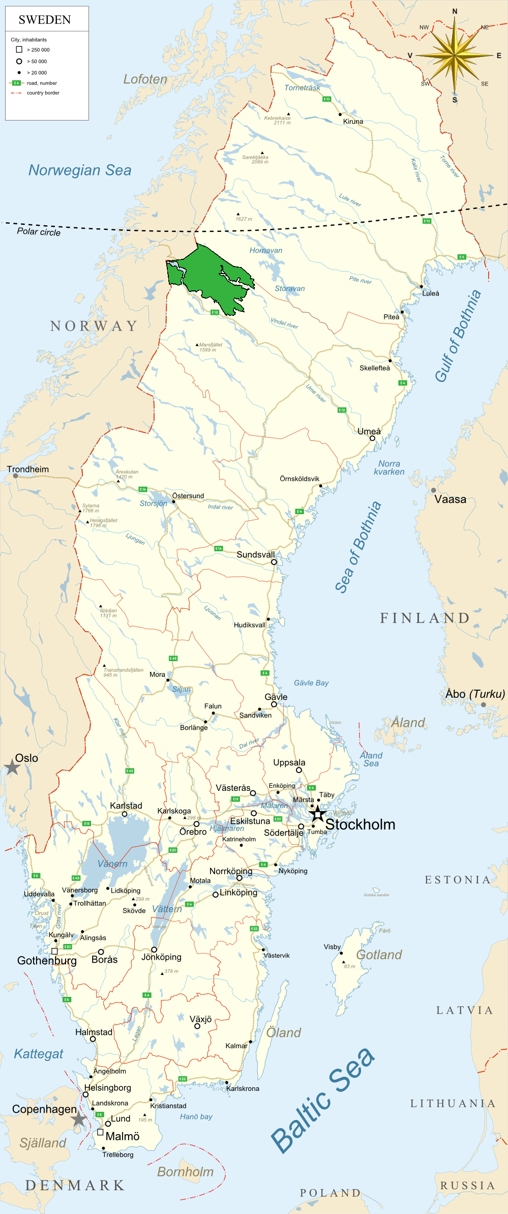 Vindelfjallen highlighted in green in Sweden map